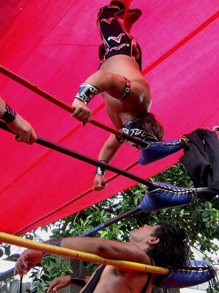 Ultimo Guerrero (top) performing a headstand on the turnbuckles during a match against Tony Cirio in August 2010.